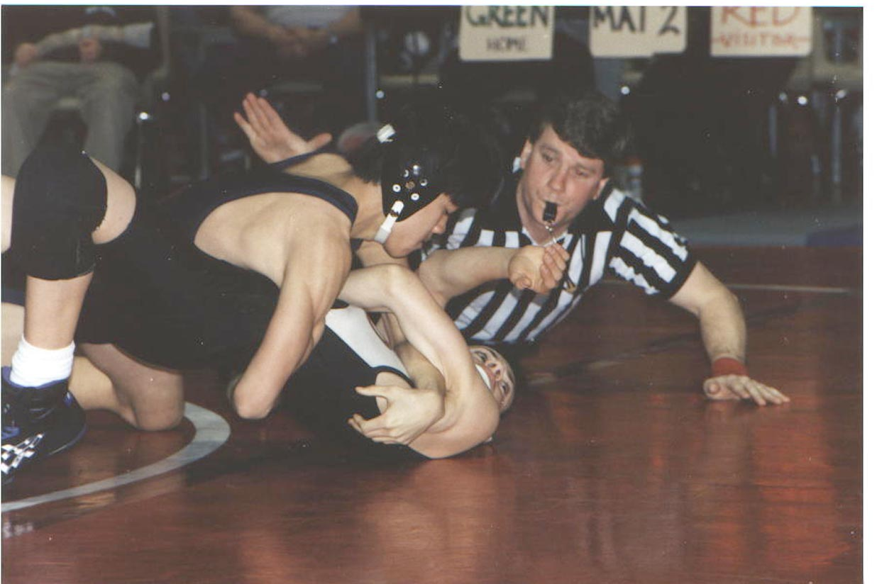 Two high school students wrestling (collegiate, scholastic, or folkstyle) in the United States.